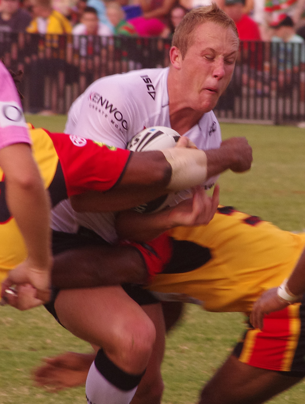 Jason Clark